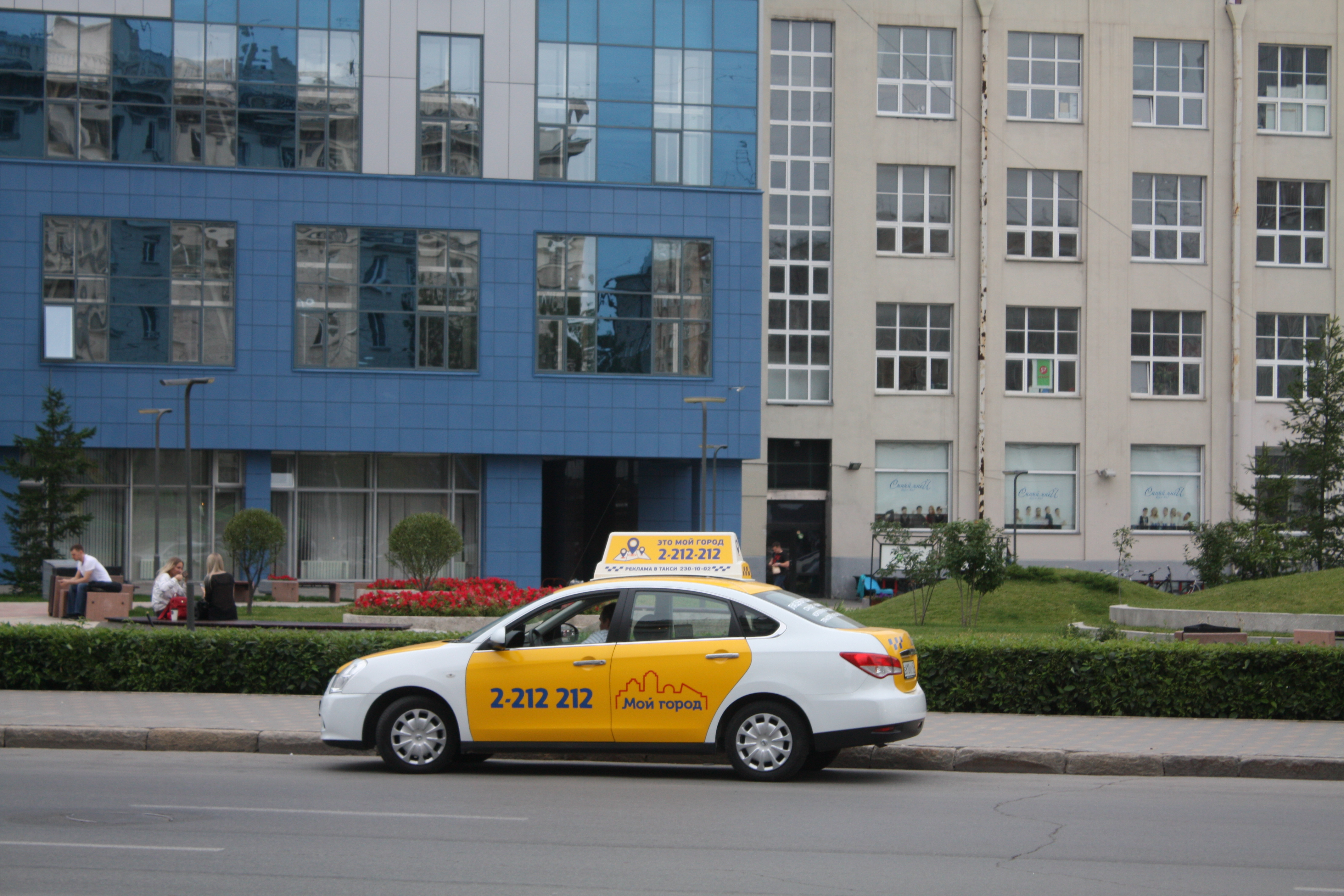 Taxi, Ordzhonikidze Street, Novosibirsk.